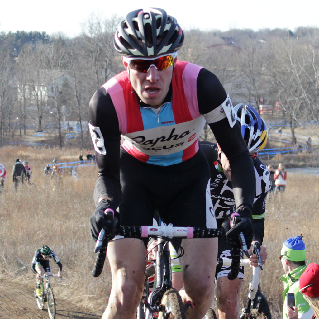 Jeremy Powers at Cyclocross National Championships, January 2012.